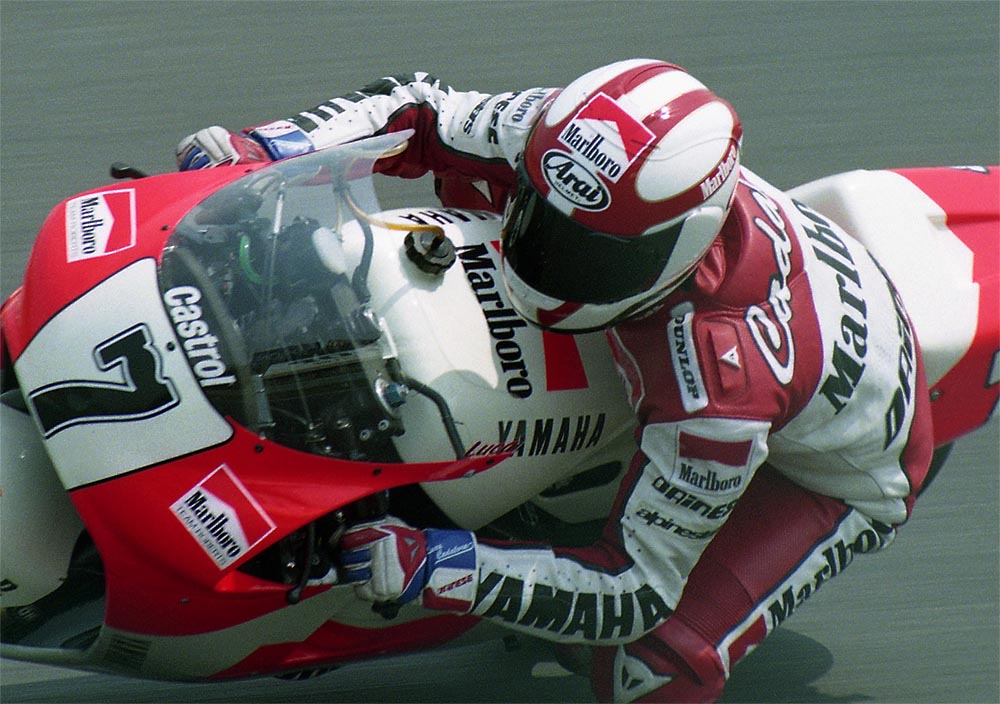 Luca Cadalora, in Japanese Grand Prix 1993